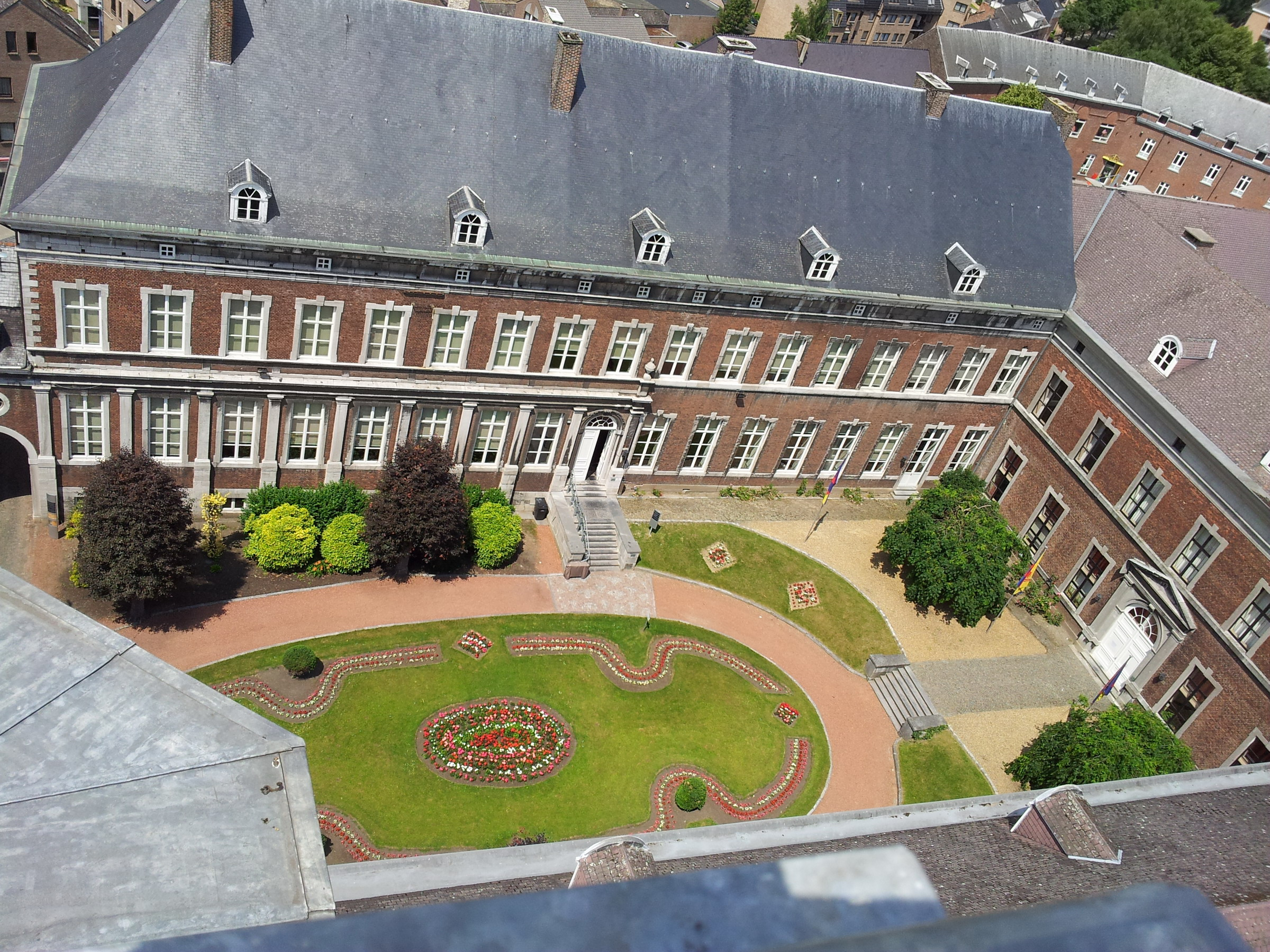 View towards the Northwest from the tower of the demolished church of the former Benedictine abbey in Sint-Truiden, Belgium. Around the garden some abbey buildings from the 18th and 19th c..